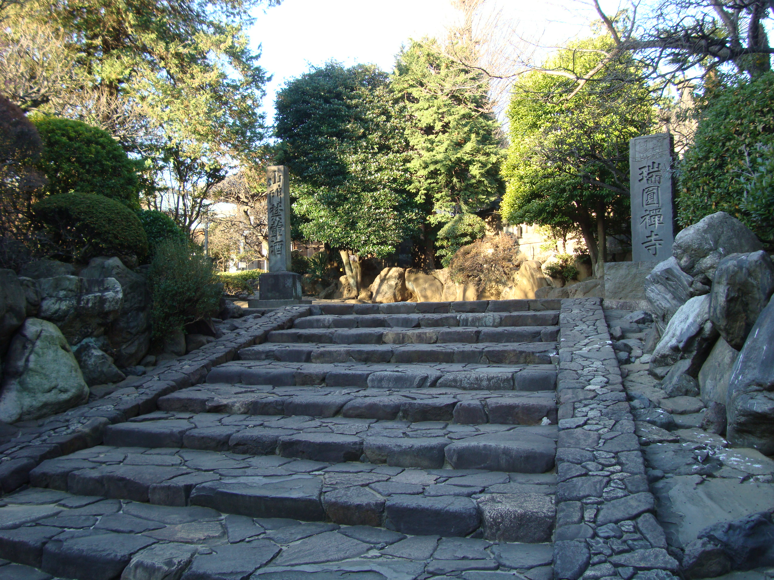 Zuien-zen-ji temple. Sendagaya, Tokyo